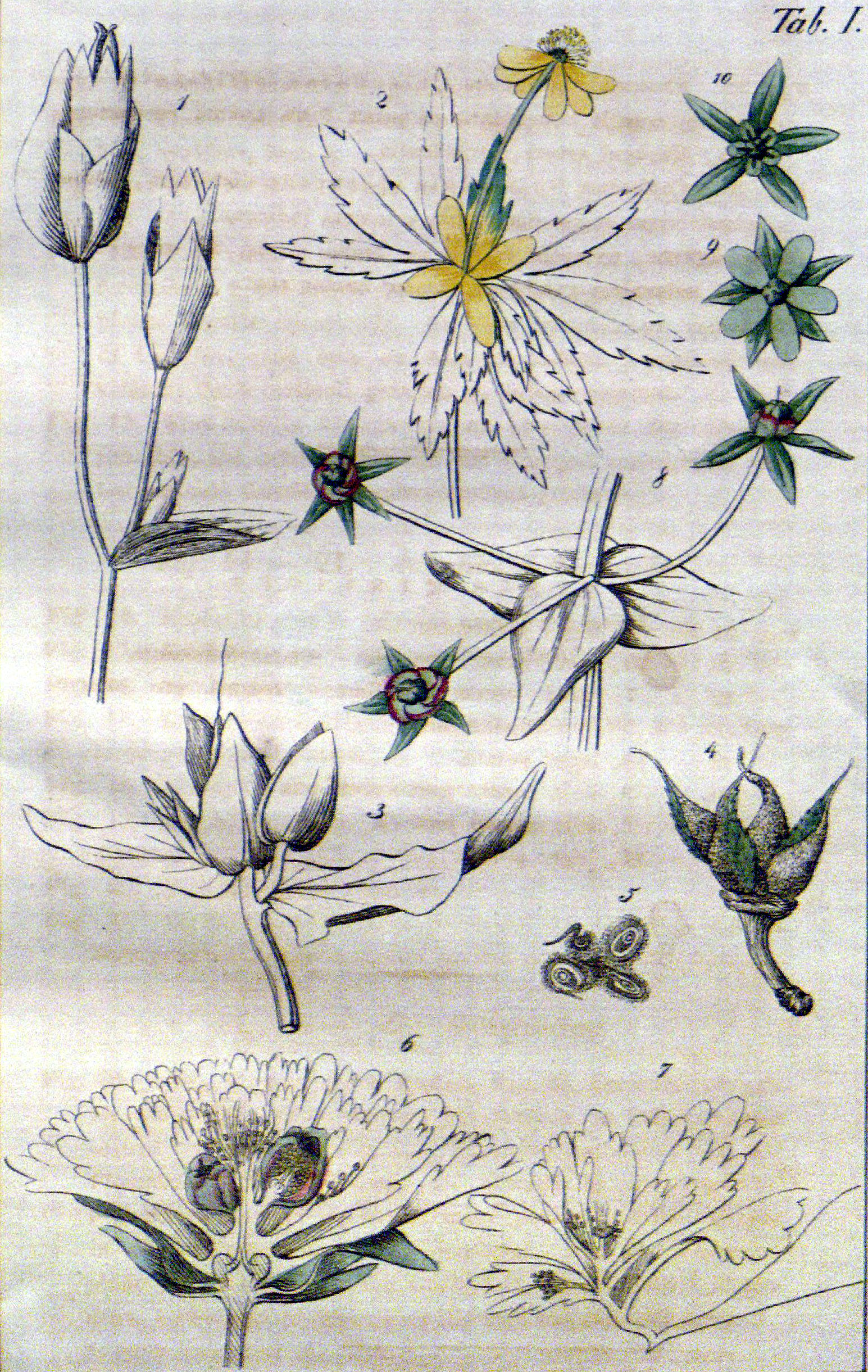 Plate 1 of George Engelmann's De Antholysi Prodromus